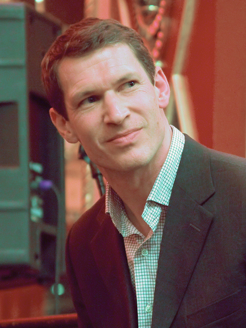 Taken 2/11/11, during the event with Tim Hetherington and Sebastian Junger, co-directors of the Oscar-nominated, Sundance Film Festival Grand Jury Prize-winning documentary, Restrepo. Tim Hetherington is an award-winning photojournalist, documentarian, and film maker.